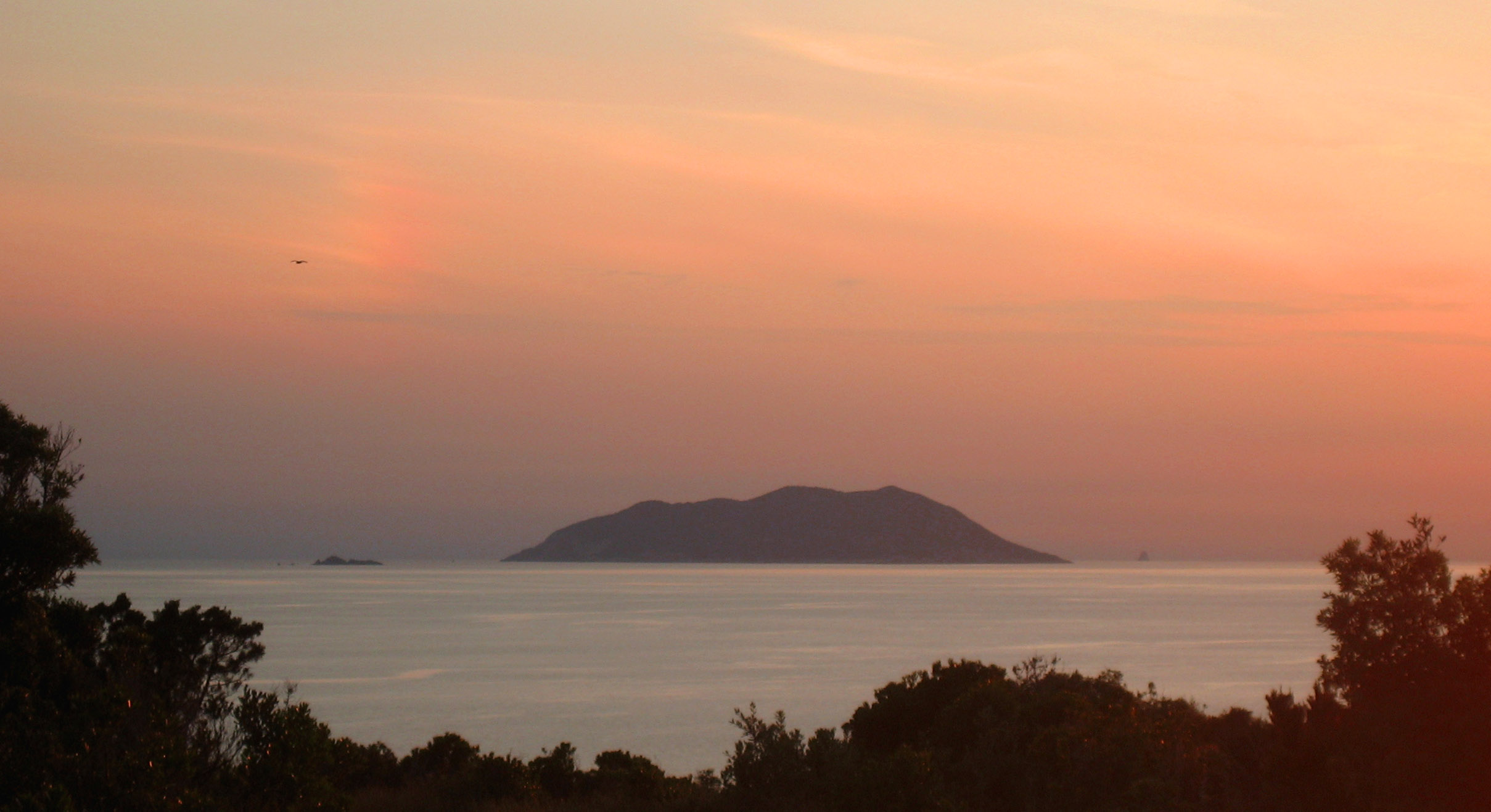 Croatian islands (from left to right) Brusnik, Svetac, Jabuka; view from Biševo